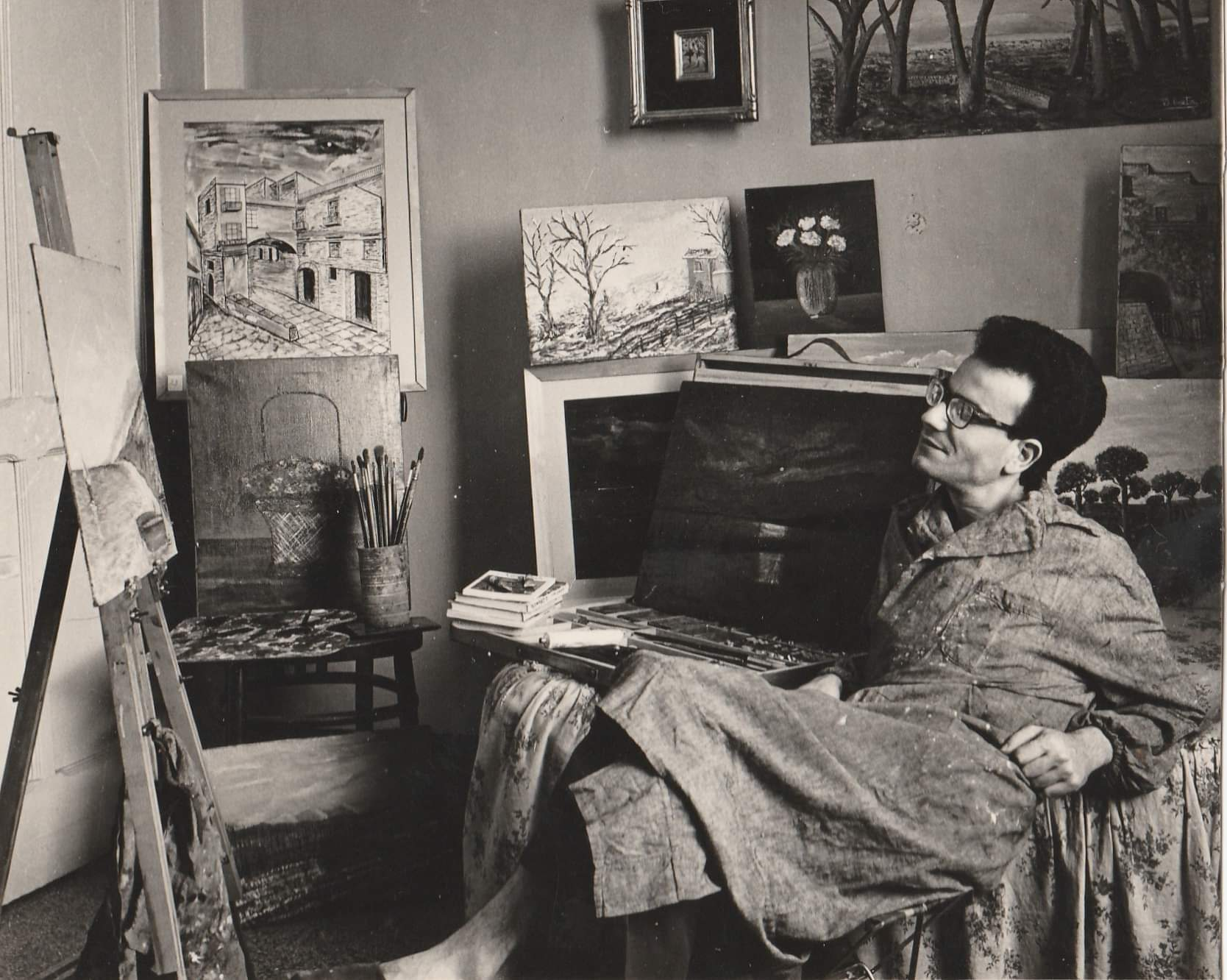 Osvaldo nel salotto di casa sua